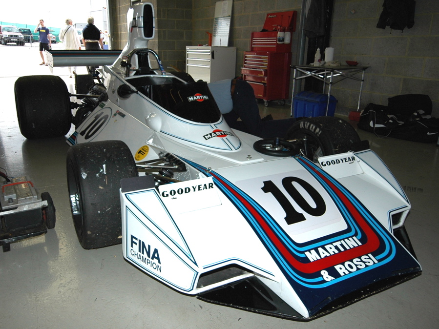 Formula-1 chassis Brabham BT42 in boxes at Silverstone 2005. The car is fitted with Brabham BT44 bodywork.